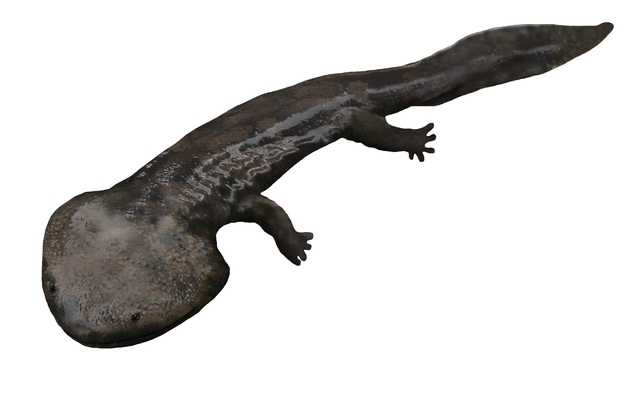 Koolasuchus artist's impression